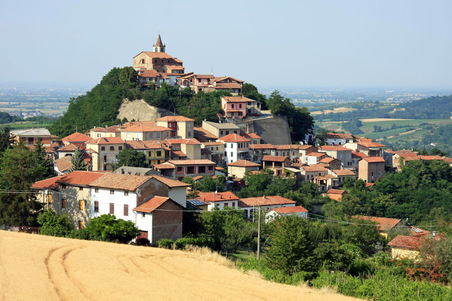 Panorama of Sarezzano